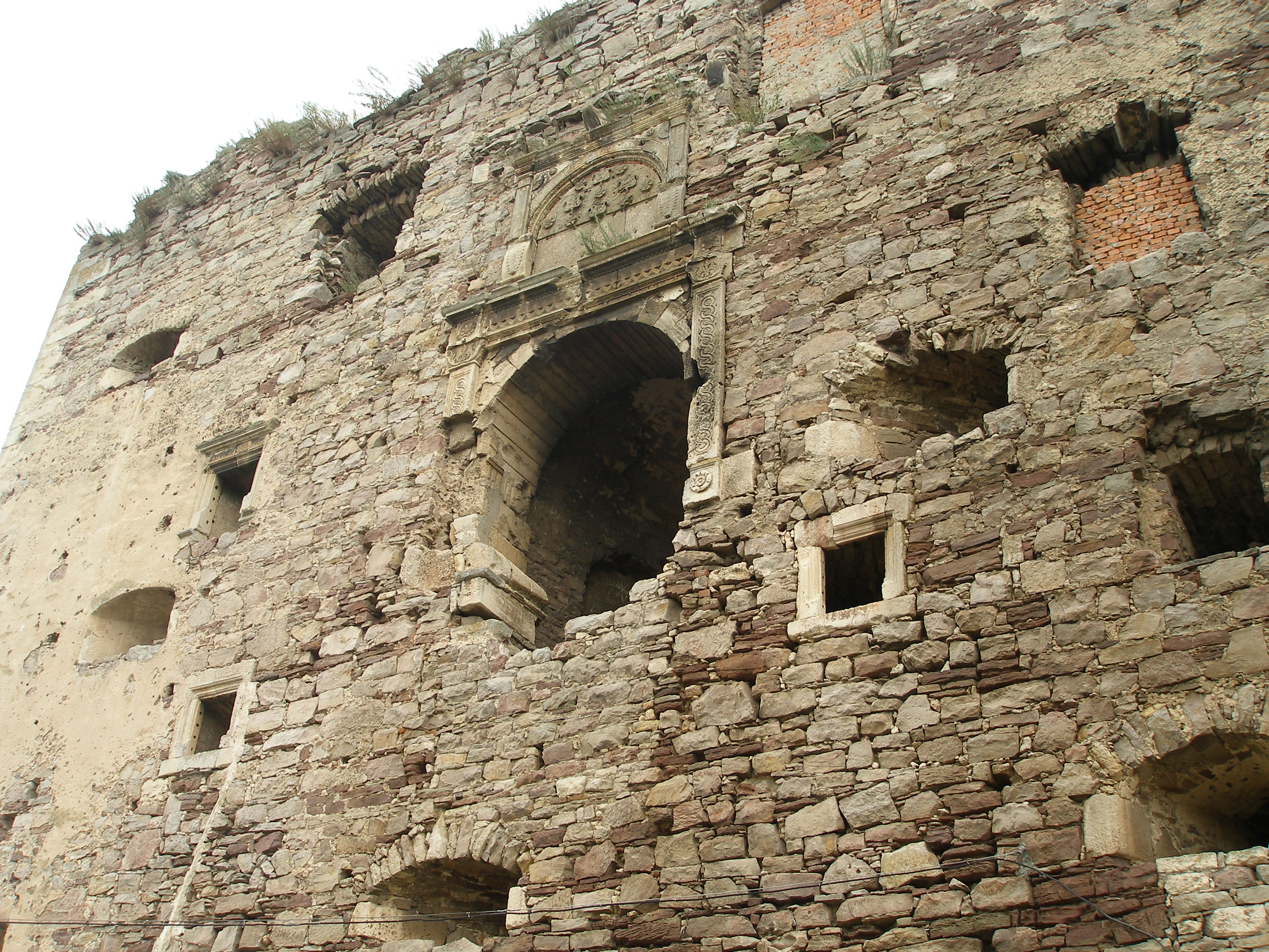 Ruins of castle in Yazlovets, Ternopil Oblast